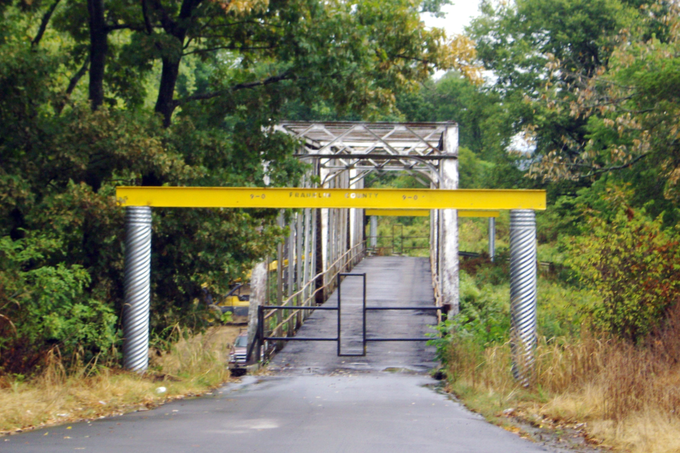 Mulberry Bridge in Franklin County, Arkansas over the Mulberry River. Bridge is listed on the National Register of Historic Places.